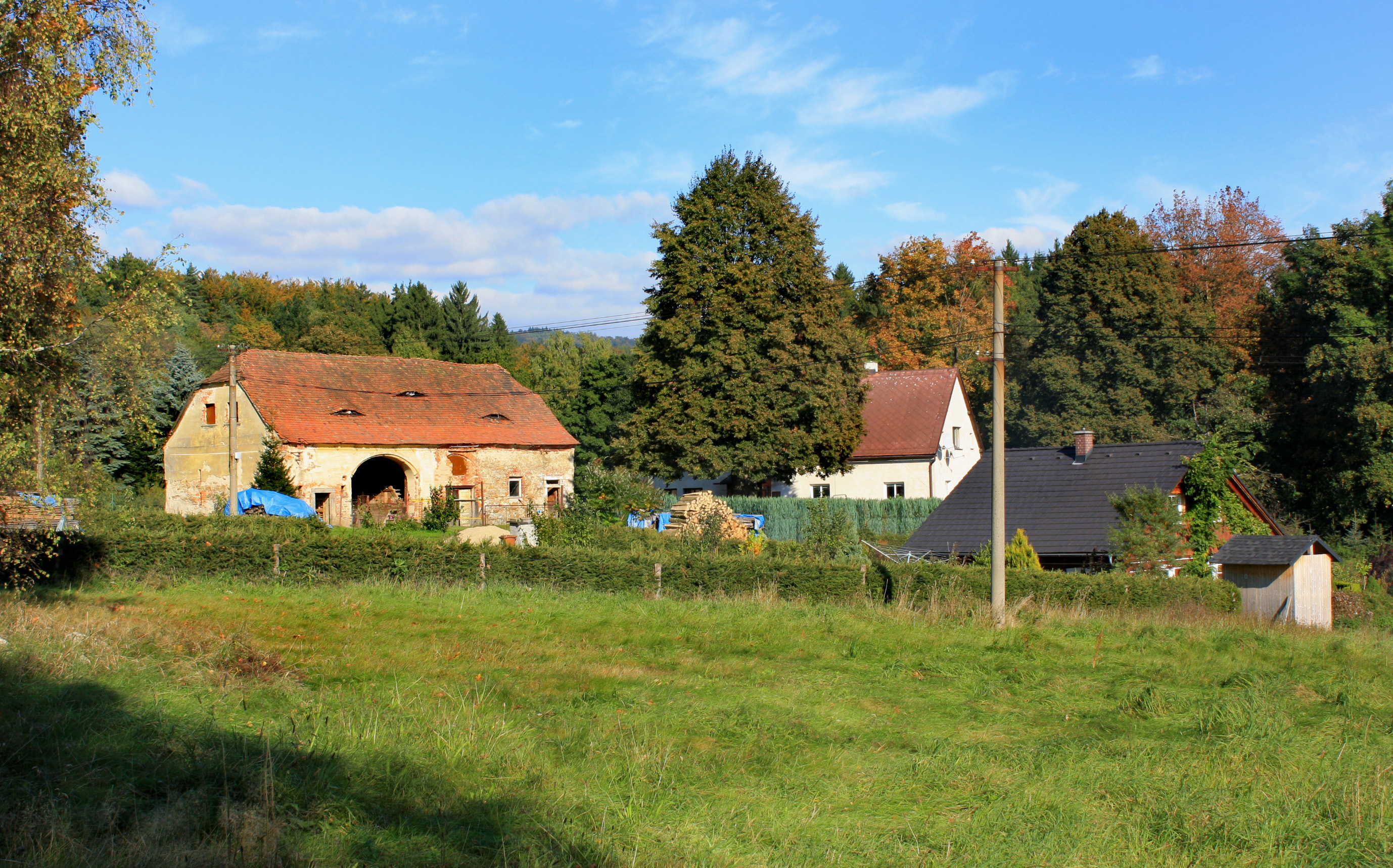 North part of Mlýnice, part of Nová Ves, Czech Republic